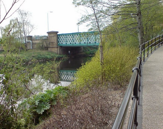 Monk Bridge, Leeds This carries Whitehall Road over the River Aire. Seen from the footpath by the Riverside West office/apartment building